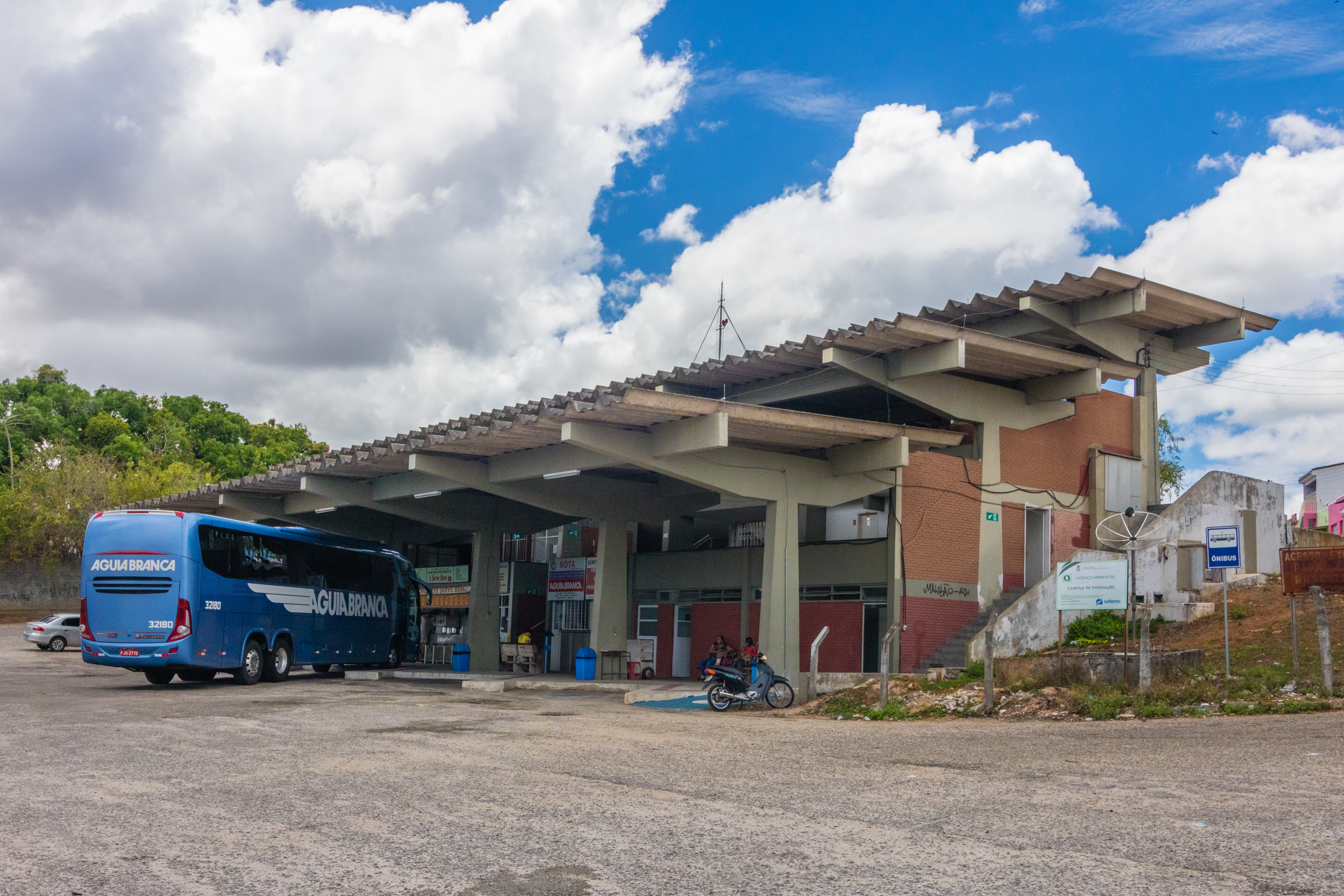 Estância Bus Terminal, BR-101, Estância, Sergipe, Brazil.